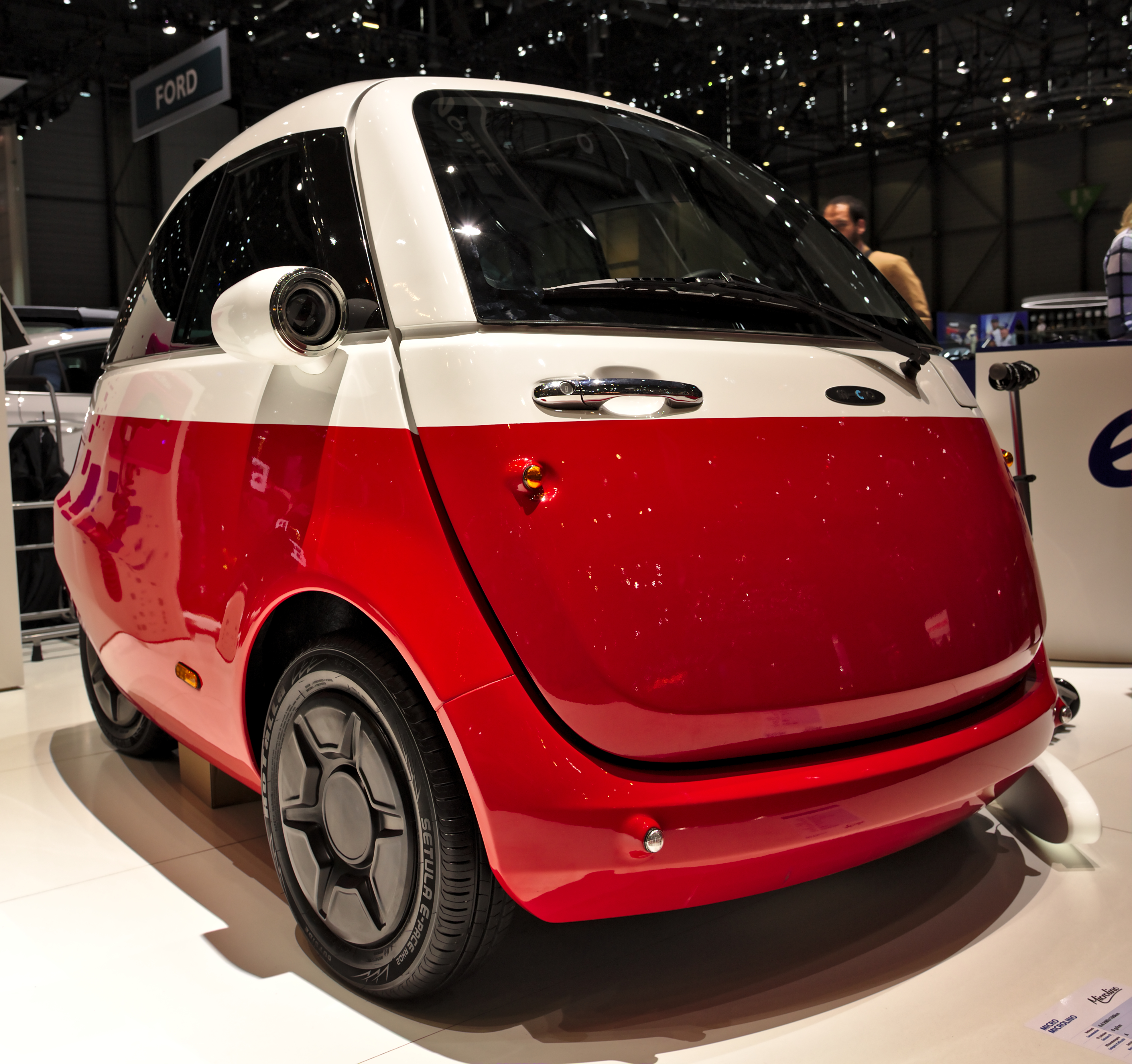 Microlino at Geneva Motorshow 2018